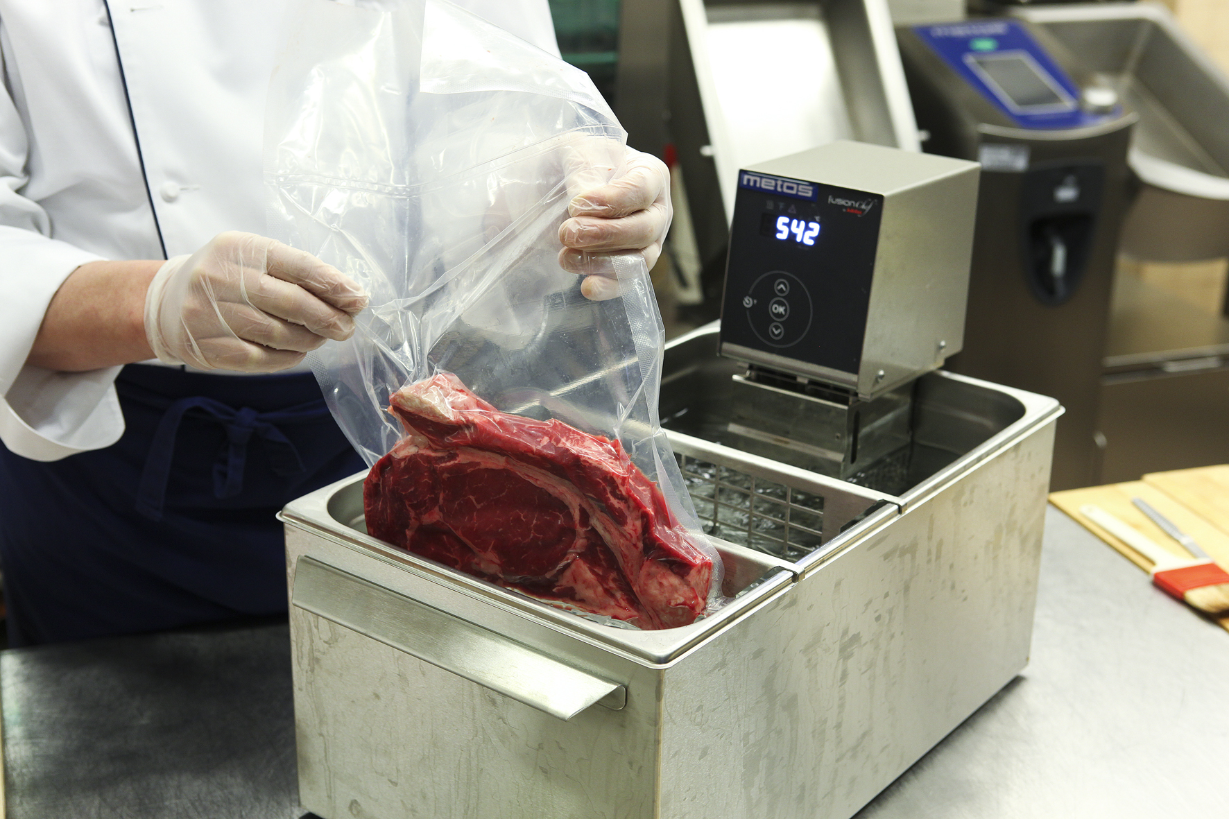 Circulator / sous vide / chuck roll